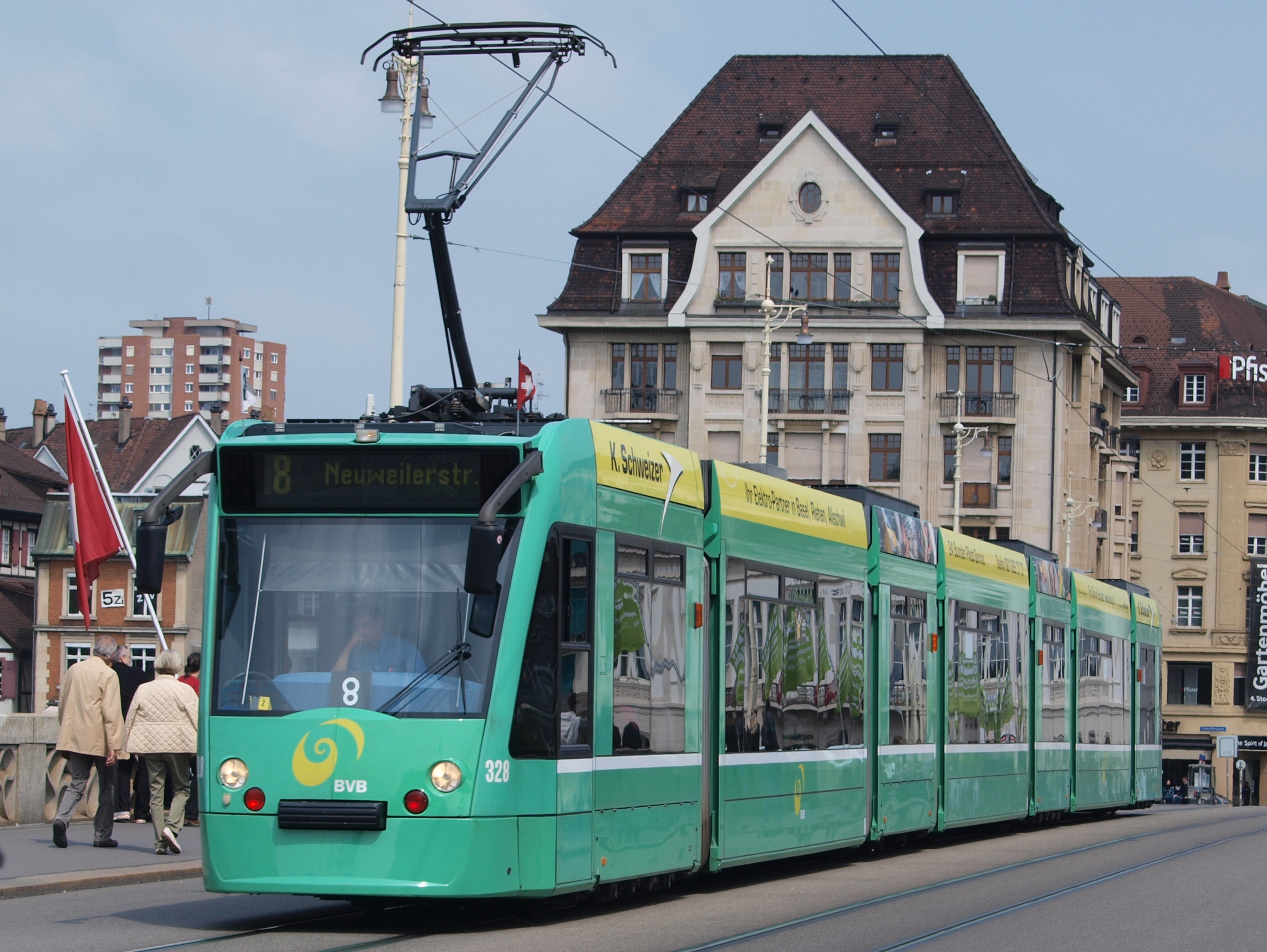 BVB Tram car 328, line 8 towards Neuweilerstrasse at Basel, Switserland.